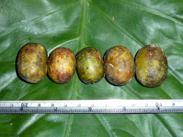 This photo of the ripe fruits of Choerospondias axillaris (Family Anacardiaceae), locally known as Lepchipoma in Assamese was taken in Namdapha National Park and Tiger Reserve, where it is a common tree in lower elevations. Fruiting is between October to December in Arunachal Pradesh. Regurgitated seed piles of this species is often found in resting sites of barking deer and sambar which eat the fallen fruits of this species.